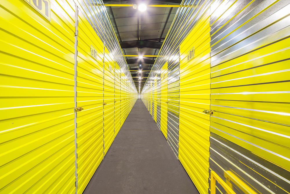 Self-storage SVOY SKLAD in Kyiv, Ukraine